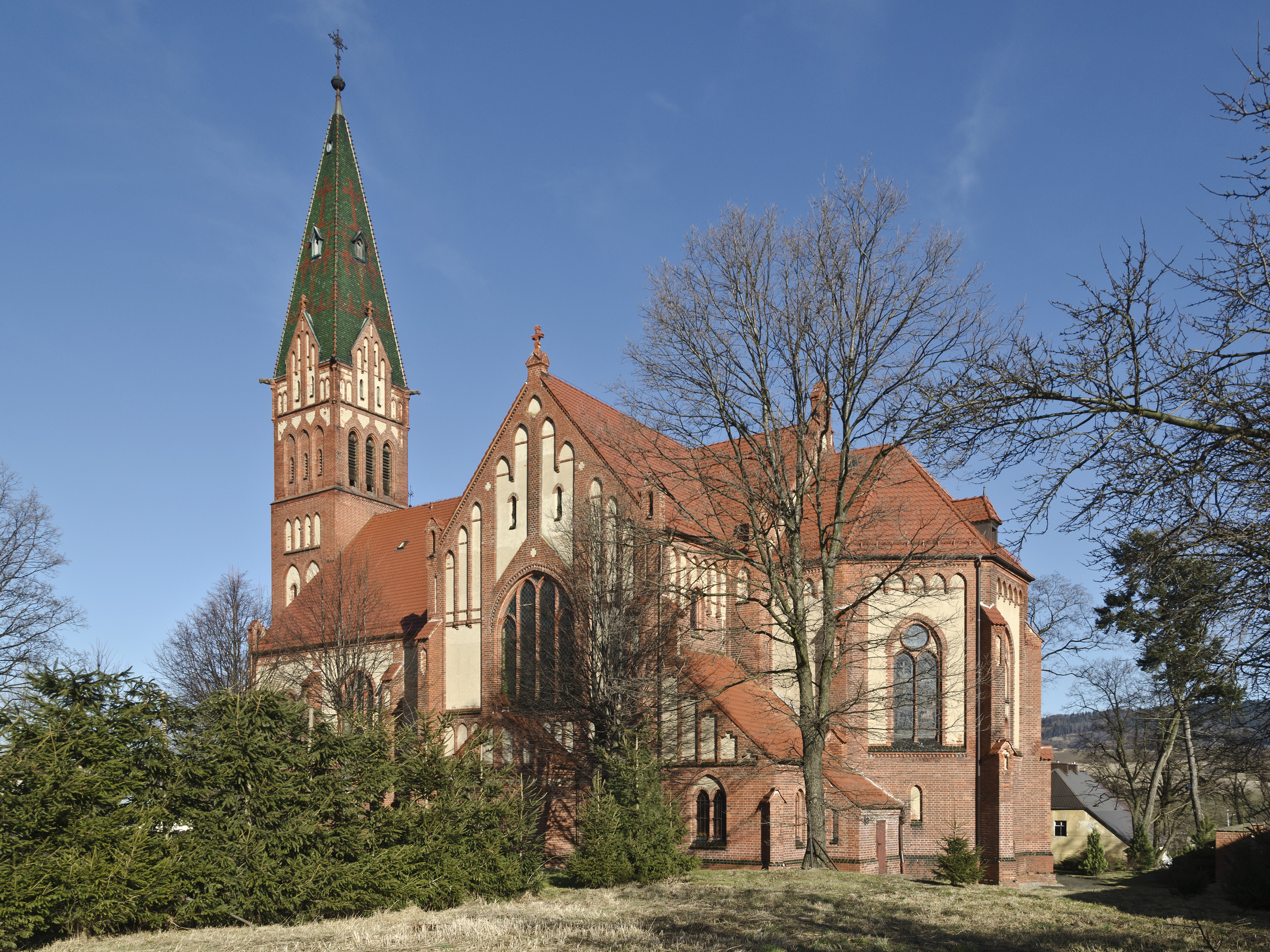 Saint John the Baptist church in Jaszkowa Dolna